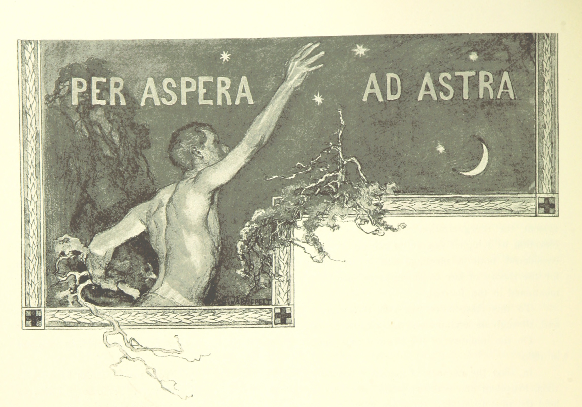 Image taken from: Title: "Finland in the Nineteenth Century: by Finnish authors. Illustrated by Finnish artists. (Editor, L. Mechelin.)" Author: MECHELIN, Leopold Henrik Stanislaus. Shelfmark: "British Library HMNTS 10290.i.4." Page: 274 Place of Publishing: Helsingfors Date of Publishing: 1894 Publisher: F. Tilgmann Issuance: monographic Identifier: 002442467 Note: The colours, contrast and appearance of these illustrations are unlikely to be true to life. They are derived from scanned images that have been enhanced for machine interpretation and have been altered from their originals. If you wish to purchase a high quality copy of the page that this image is drawn from, please order it here. Please note that you will need to enter details from the above list - such as the shelfmark, the page, the book's volume and so on - when filling out your order. Explore: Find this item in the British Library catalogue, 'Explore'. Open the page in the British Library's itemViewer (page: 274) Download the PDF for this book Click here to see all the illustrations in this book and click here to browse other illustrations published in books in the same year. Please click on the tags shown on the right-hand side for other ways to browse the illustrations.